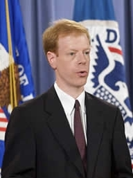 US Attorney Benton Campbell speaks at Department of Justice press conference announcing drug trafficking charges in 2009